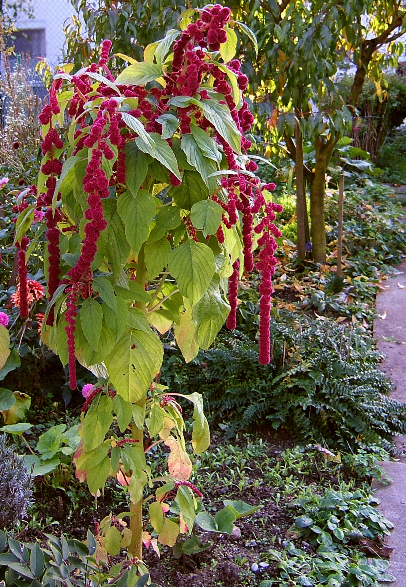 Amaranth, loves-lies-bleeding, foxtail amaranth, Tassel Flower